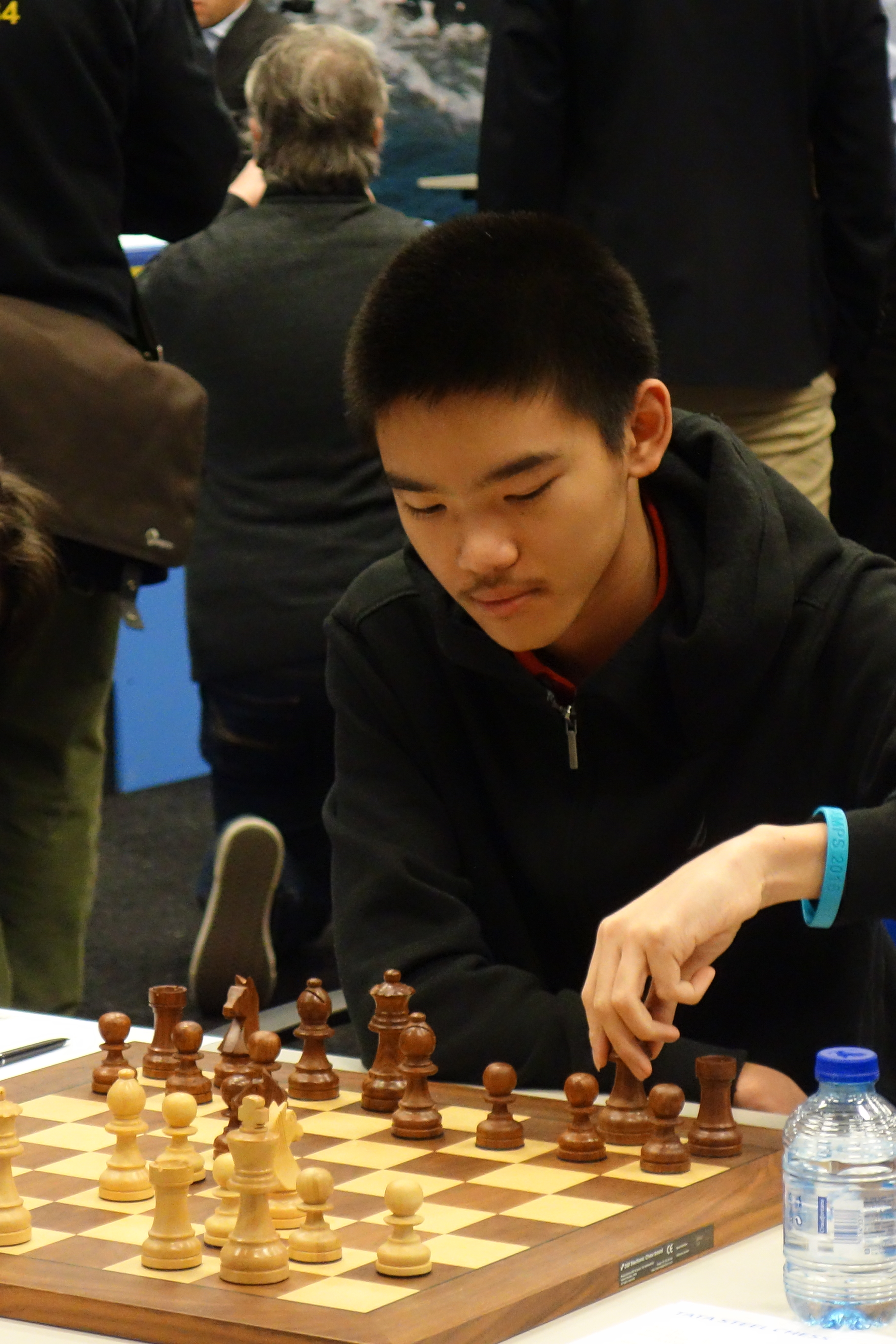 Jeffery Xiong. Tata Steel Chess Tournament 2017, Wijk aan Zee (the Netherlands), 28 January 2017